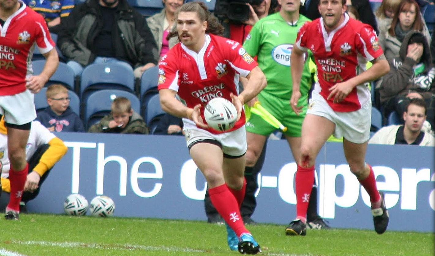 Jarrod Sammut